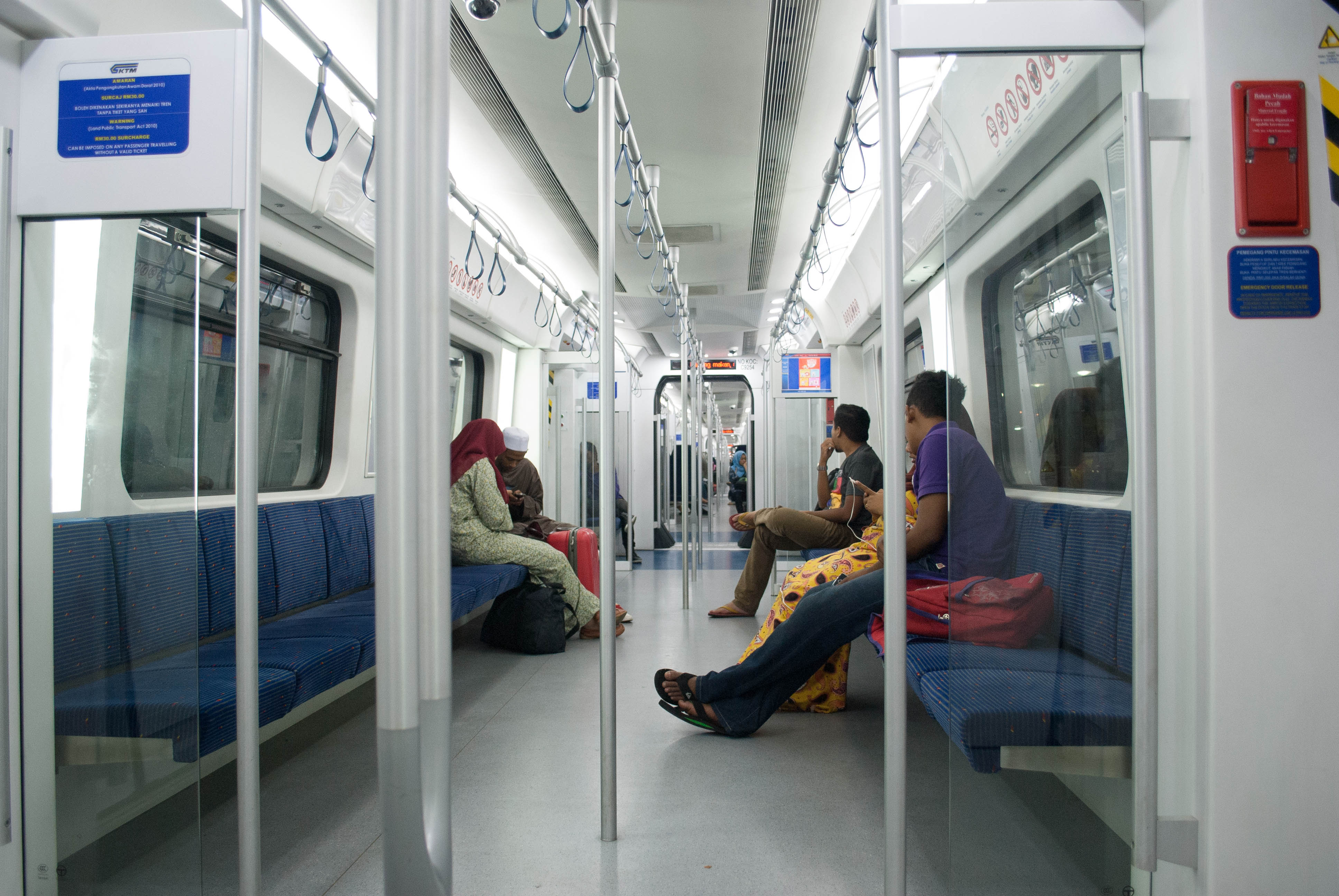 Uses longitudinal seating arrangement at the ends of the set. KTM Class 92 rolling stock.